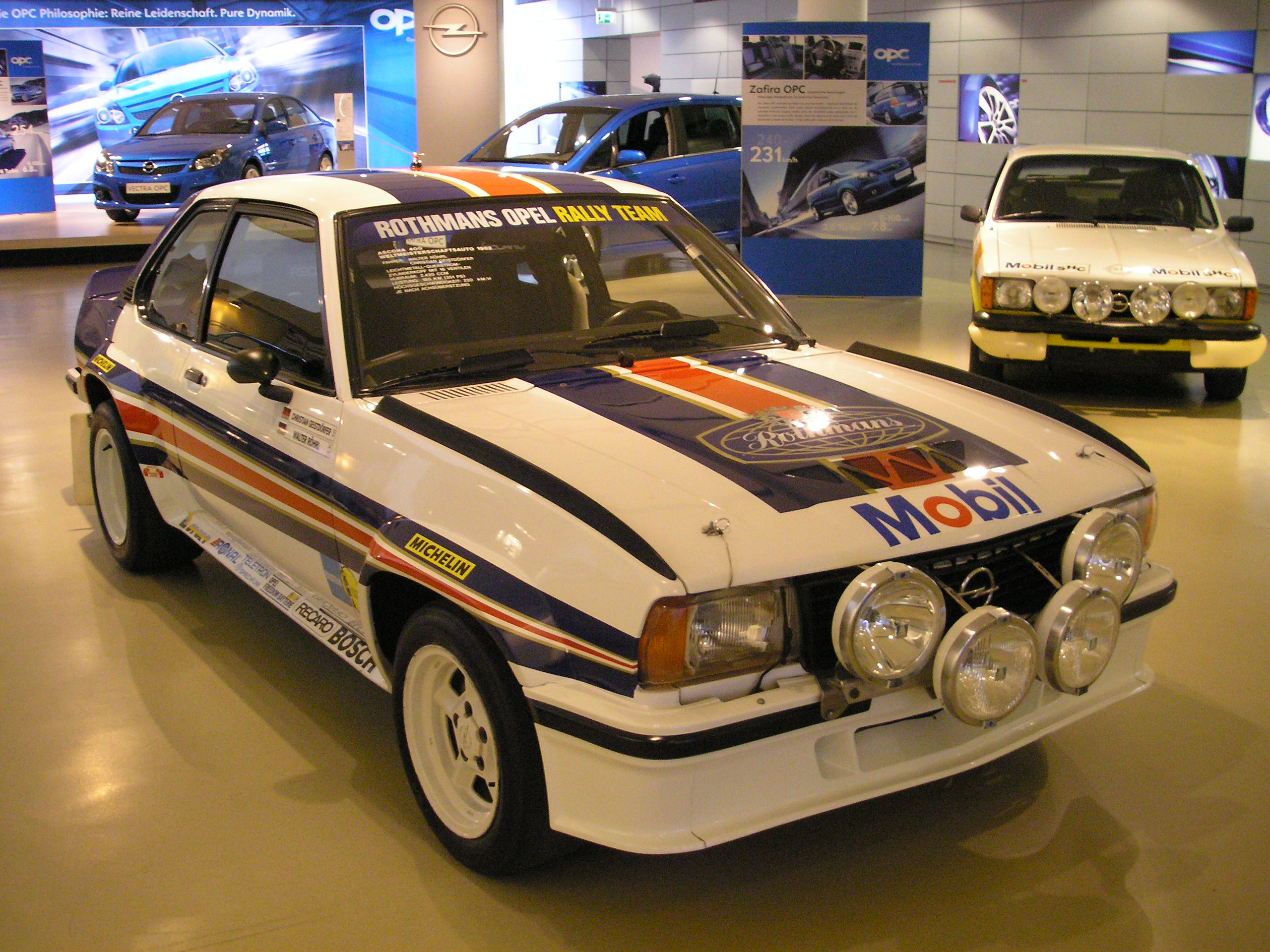 Opel Ascona 400, image taken at the Opel Centre at Friedrichstraße in Berlin. Model driven at the World Championship in 1982.